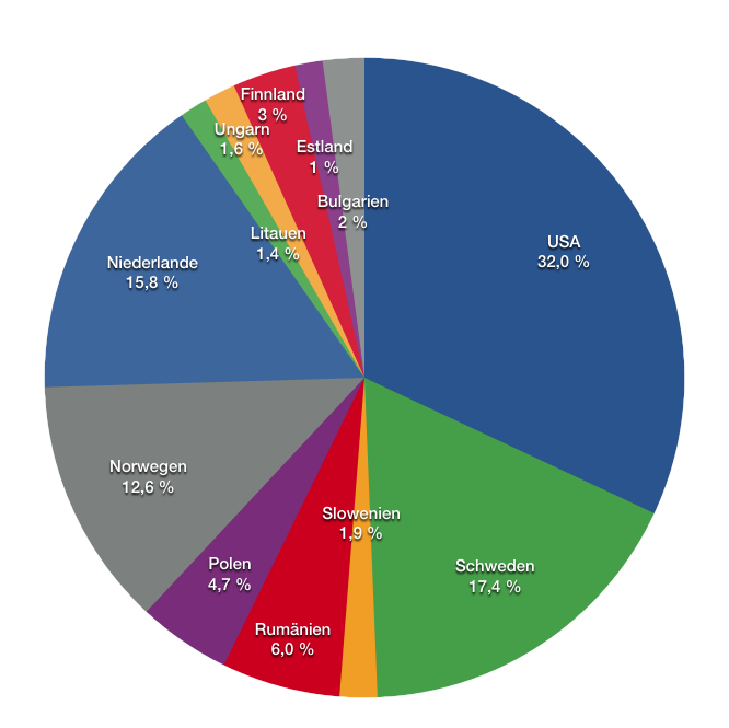 Cost allocation of the (German Titles)